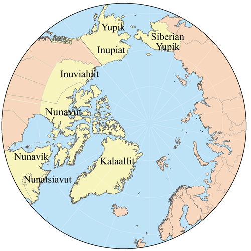 Map showing the members of the Inuit Circumpolar Conference.